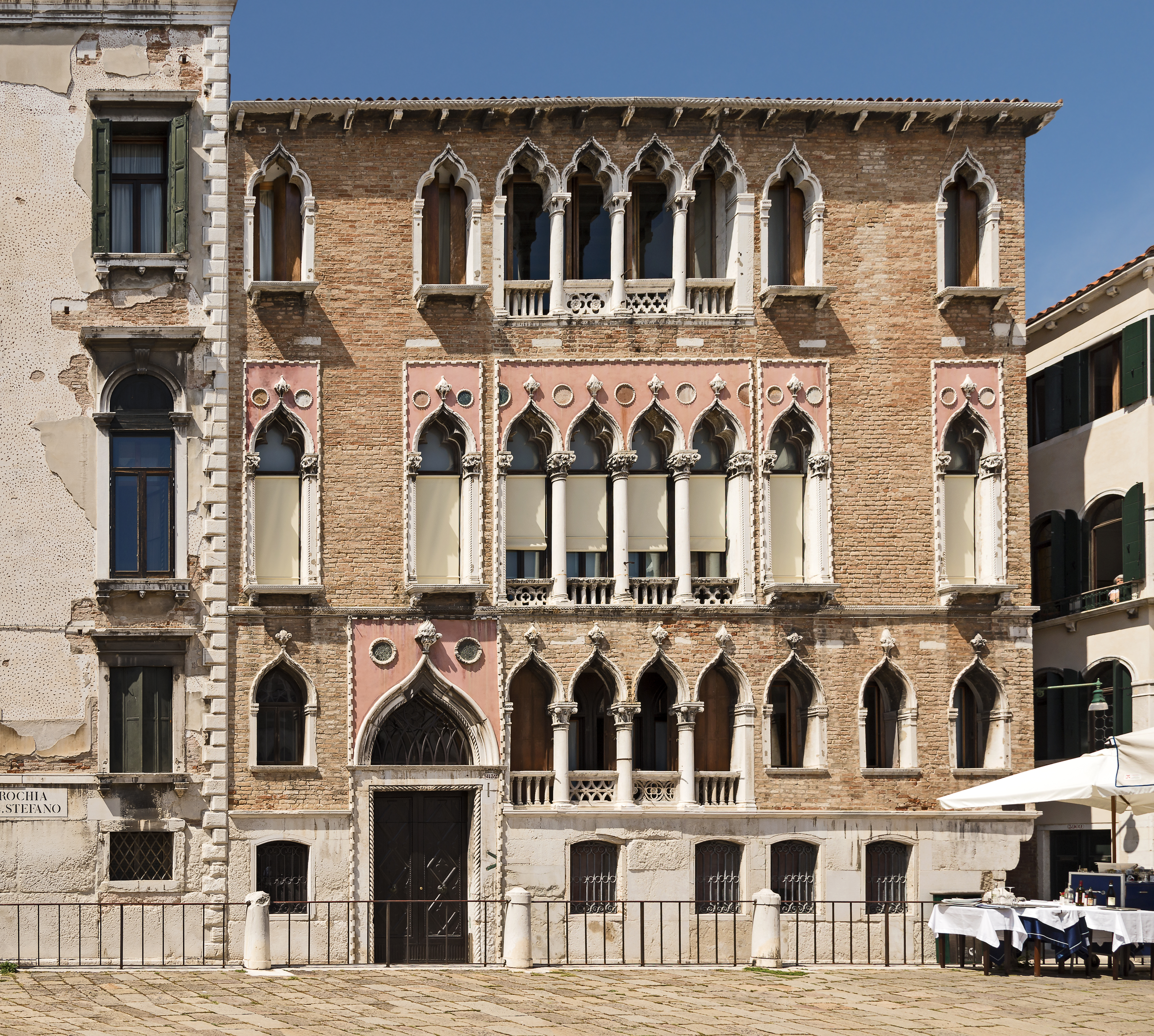 Palazzo Gritti Morosini in venice - Facade on Campo Sant'Angelo.